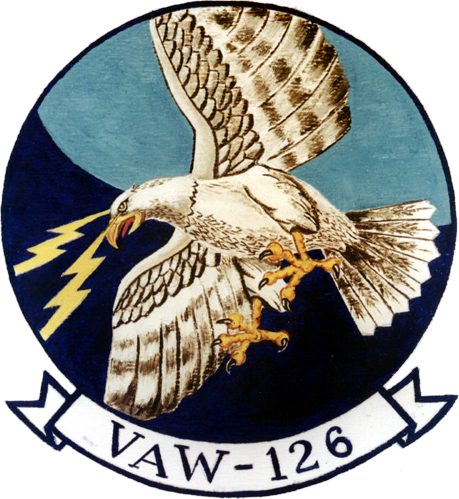 Insignia of the U.S. Navy Carrier Airborne Early Warning Squadron 126 (VAW-126) "Sea Hawks".